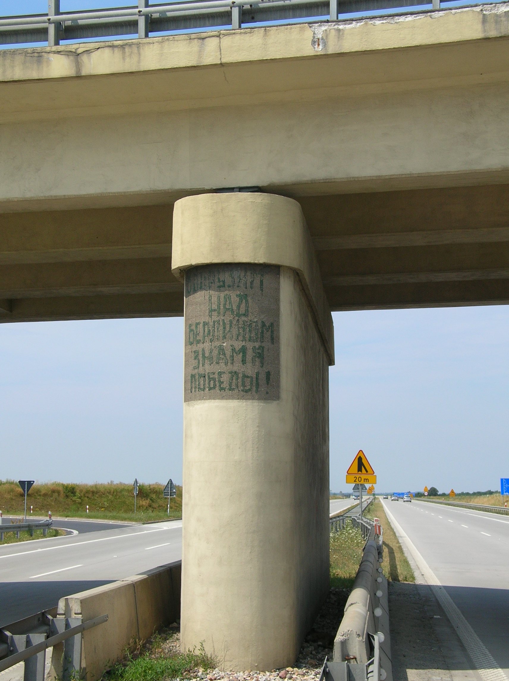 Highway A4 Wrocław-Legnica. Russian inscription Водрузим над Берлином знамя победы (We shall hoist the flag of victory over Berlin) from the 2 WW times (1945). Location from Wrocław: Eastern side of the Ujazd Górny/Udanin junction viaduct, 3620 m before the exit to DW 345 near Budziszów.